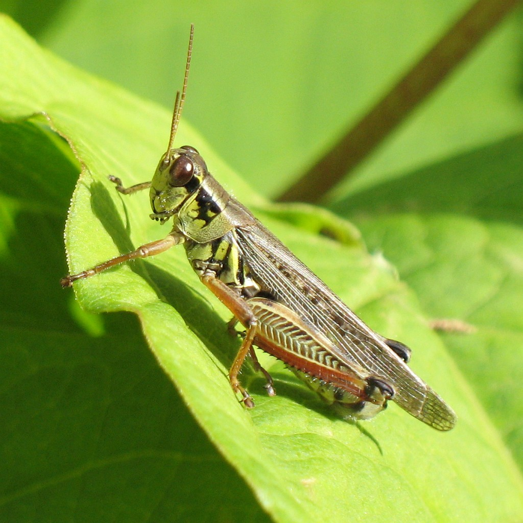 Melanoplus femurrubrum (redlegged grasshopper). One of the most common species of grasshopper in North America. Picture taken in Bas-Saint-Laurent (Quebec/Canada).